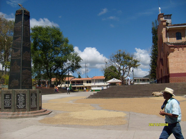 e